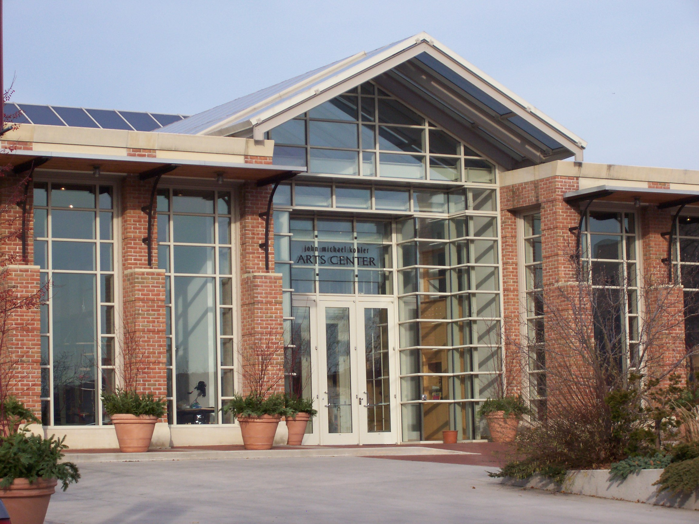 The entrance for the John Michael Kohler Art Center in Sheboygan, Wisconsin, USA.